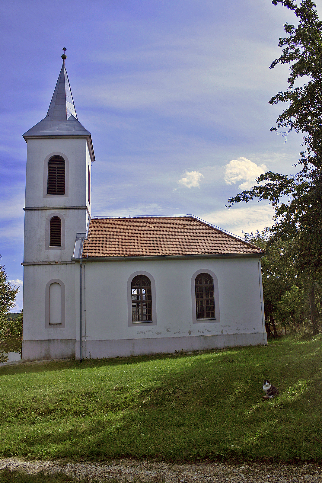 The chapel in Čikečka Vas, northeastern Slovenia.